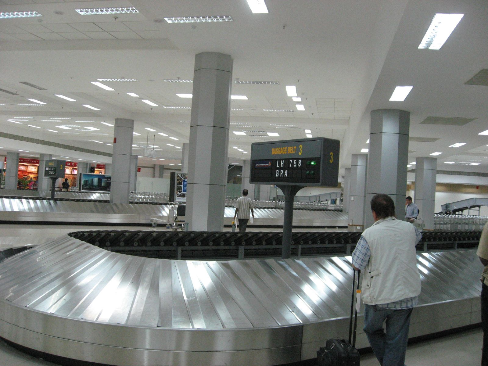 Uploaded on August 12, 2007 by rviswana uploaded by user:nikkul